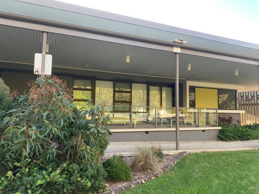 Berala Community Centre located at 98-104 Woodburn Road, Berala